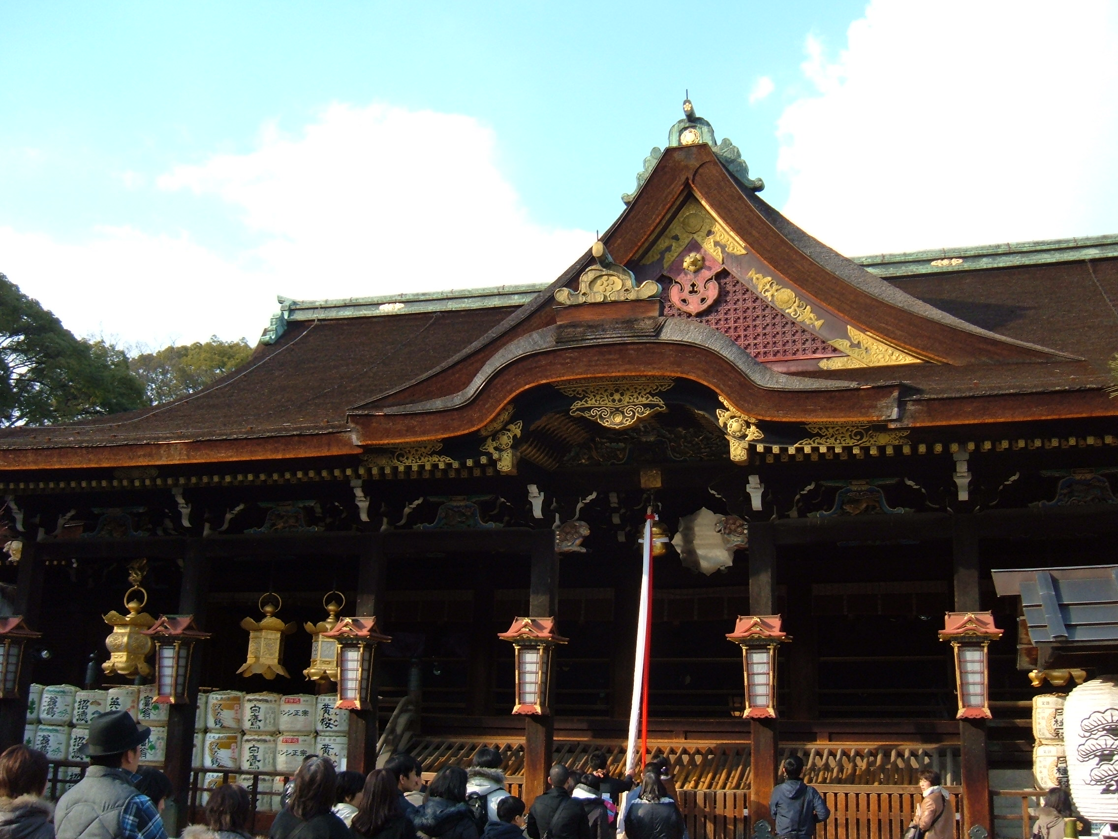 Kitano-tenmangu in Kyoto, Japan